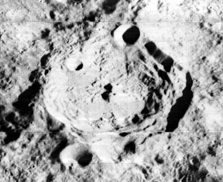 Oblique view of O'Day crater, on the far side of the moon, facing roughly south.